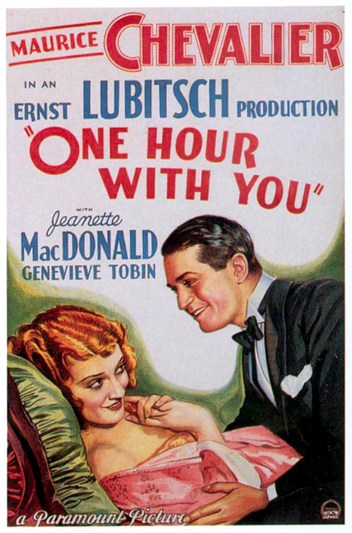 Poster for the 1932 film One Hour With You. The item has no copyright markings on it as can be seen in the links above.